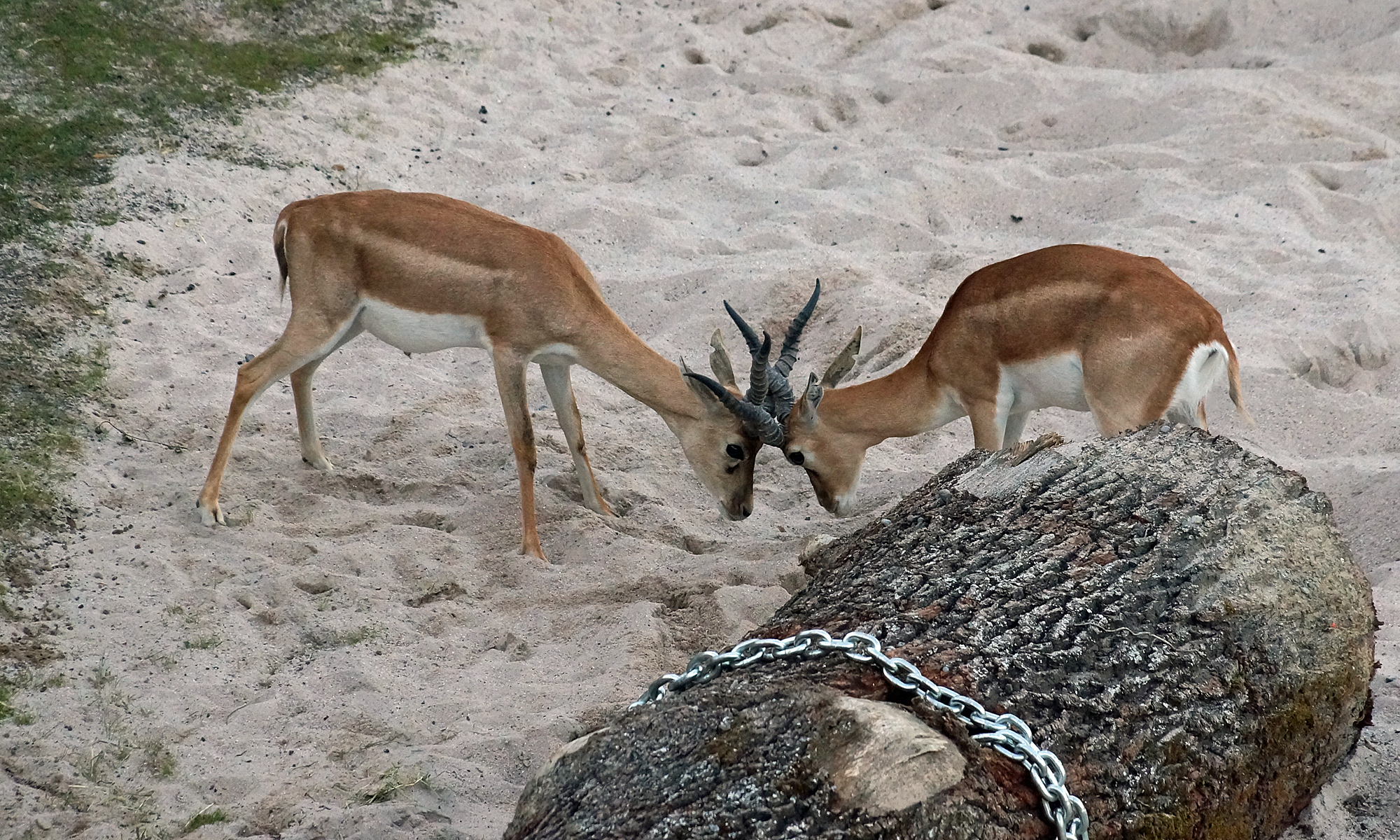 Fighting blackbucks (Antilope cervicapra) at Zürich Zoo